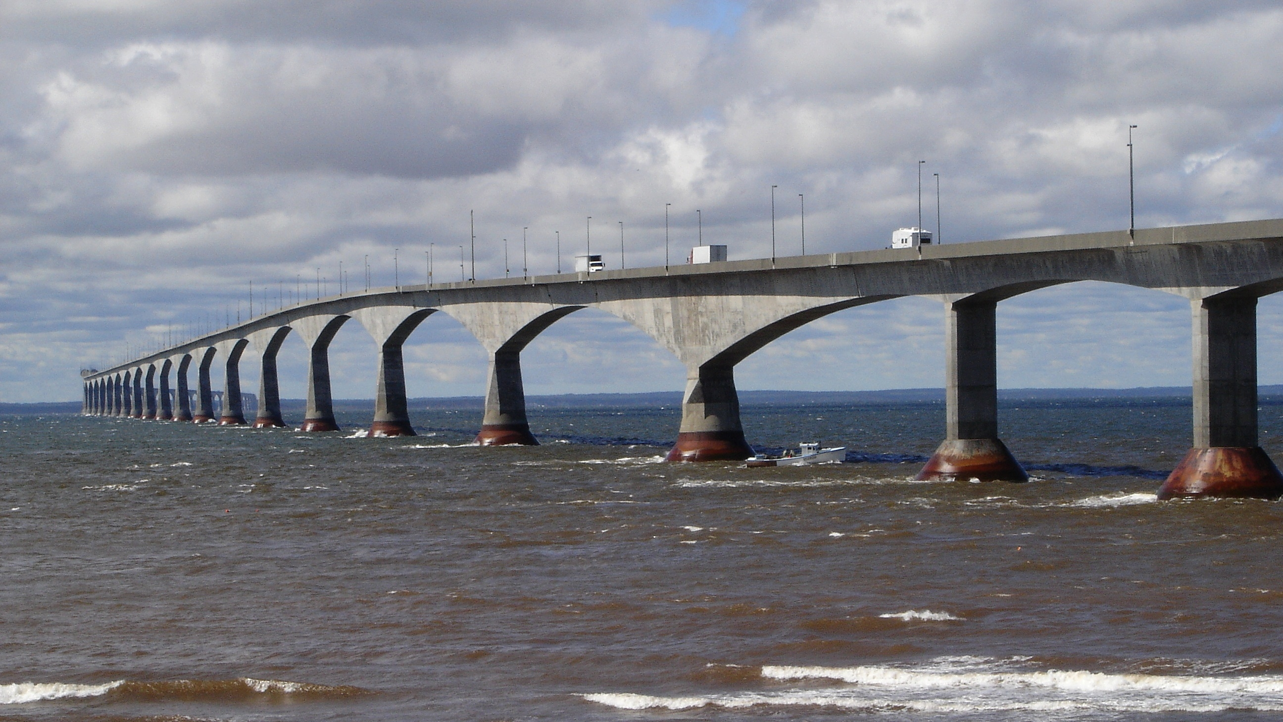 Confederation Bridge seen from Prince Edward Island 16x9